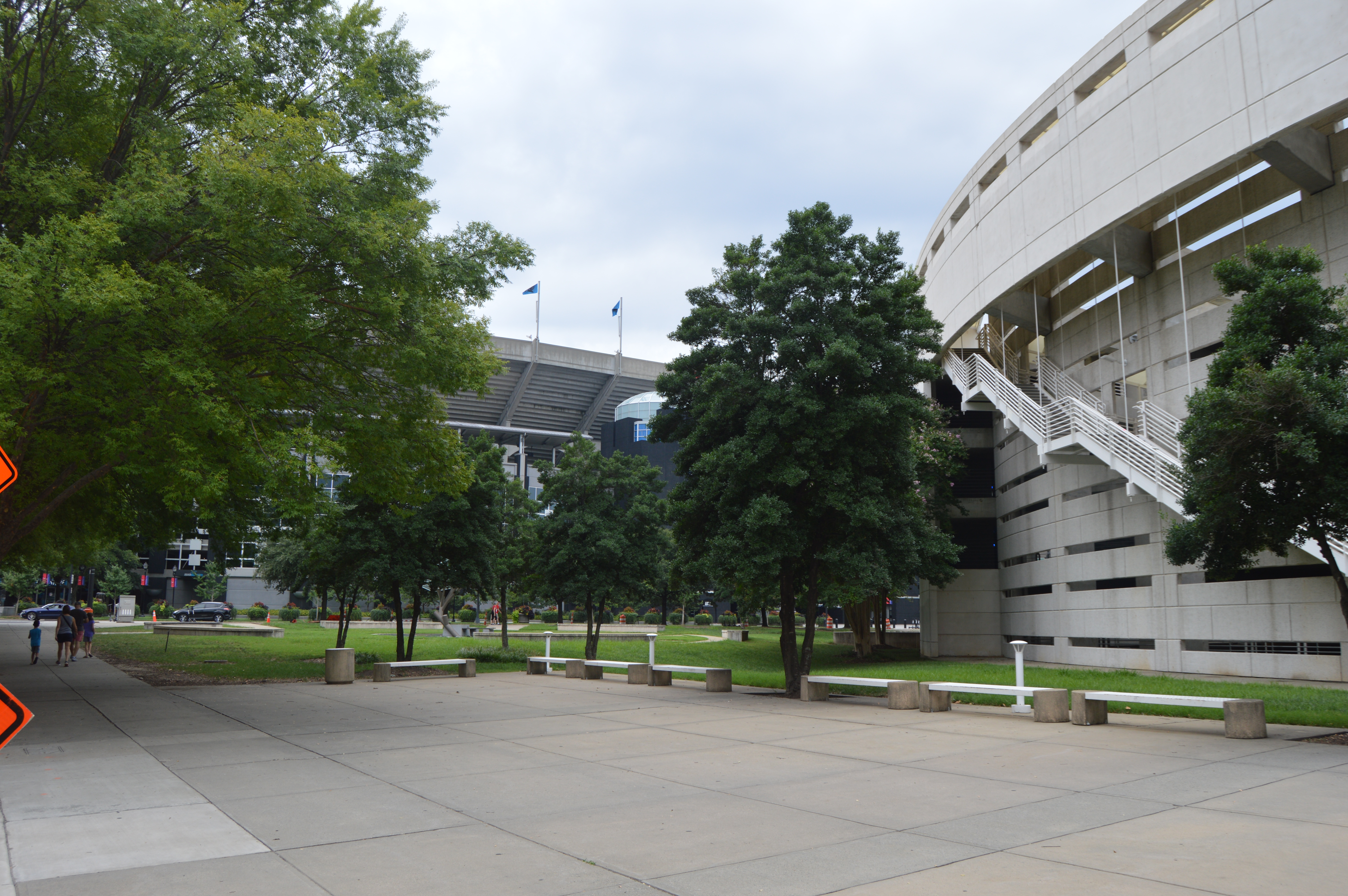 A plaza on Mint Street between Bank of America Stadium and a parking garage in central Charlotte, North Carolina, United States. This was formerly the site of the Charlotte Supply Company Building; listed on the National Register of Historic Places in 1984, it has been destroyed, but it is still officially on the Register.